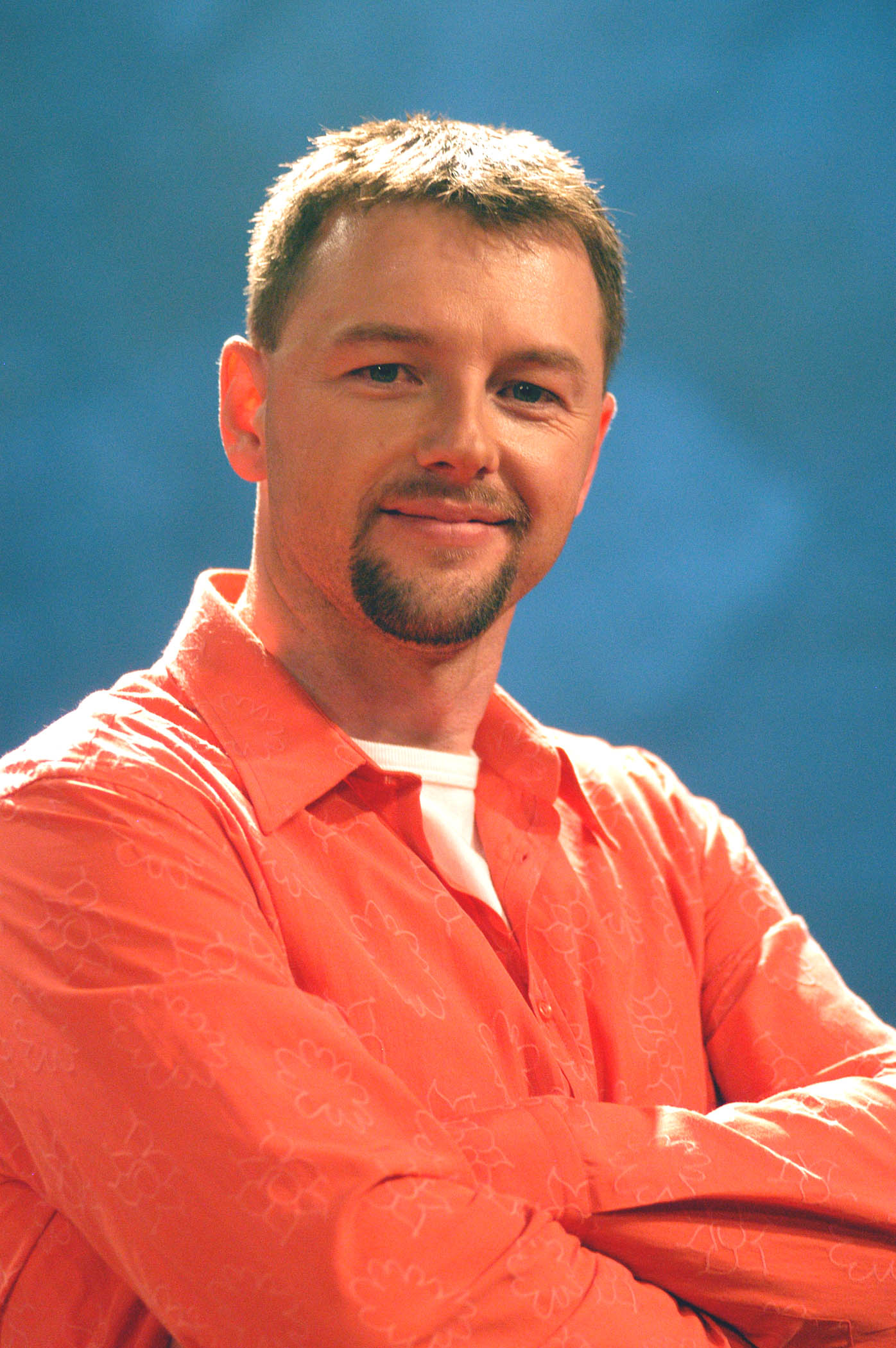 Paul Hébert, bluegrass musician